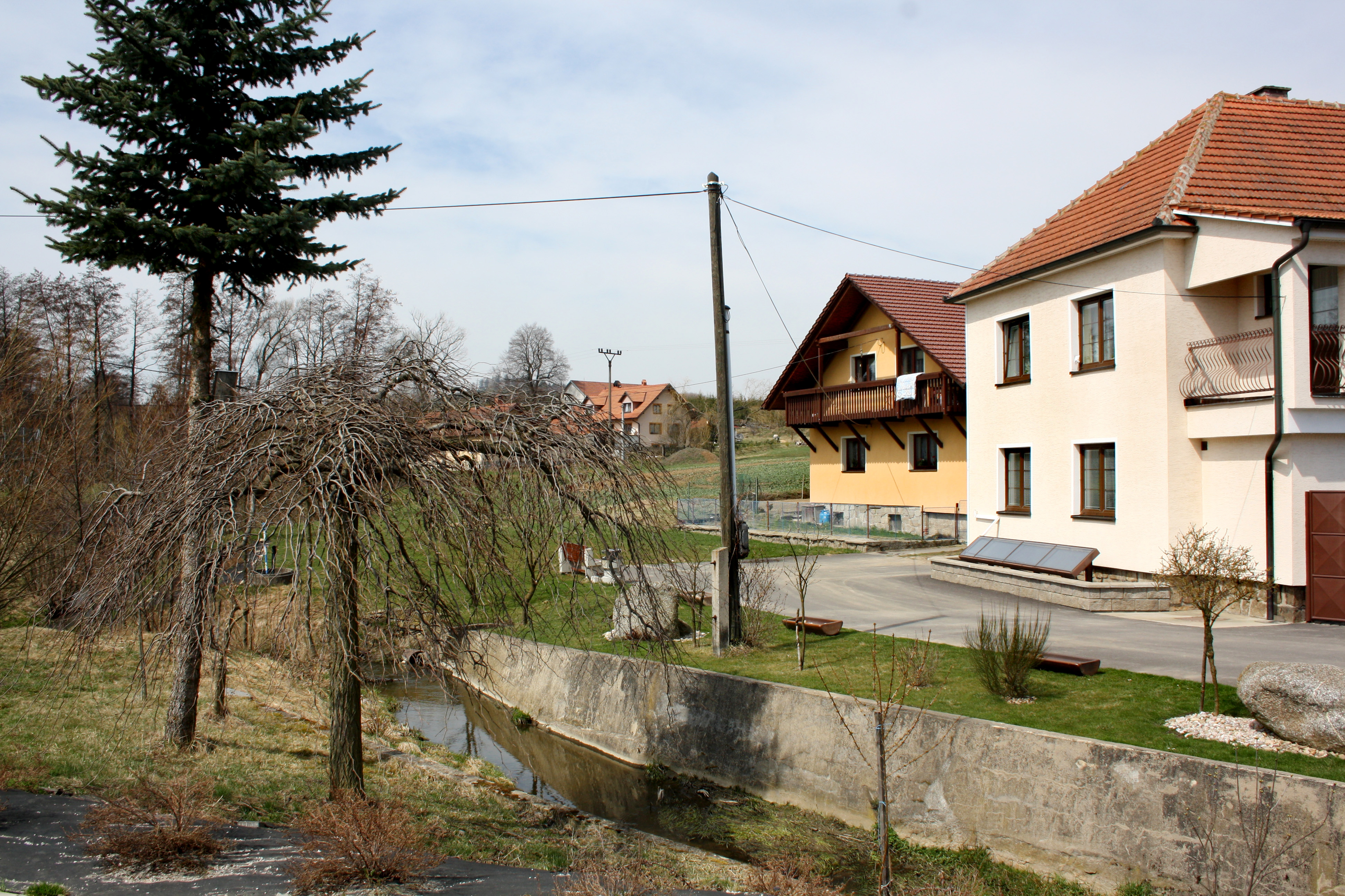 Pohořílský Creek in Pohořílky, part of Otín village